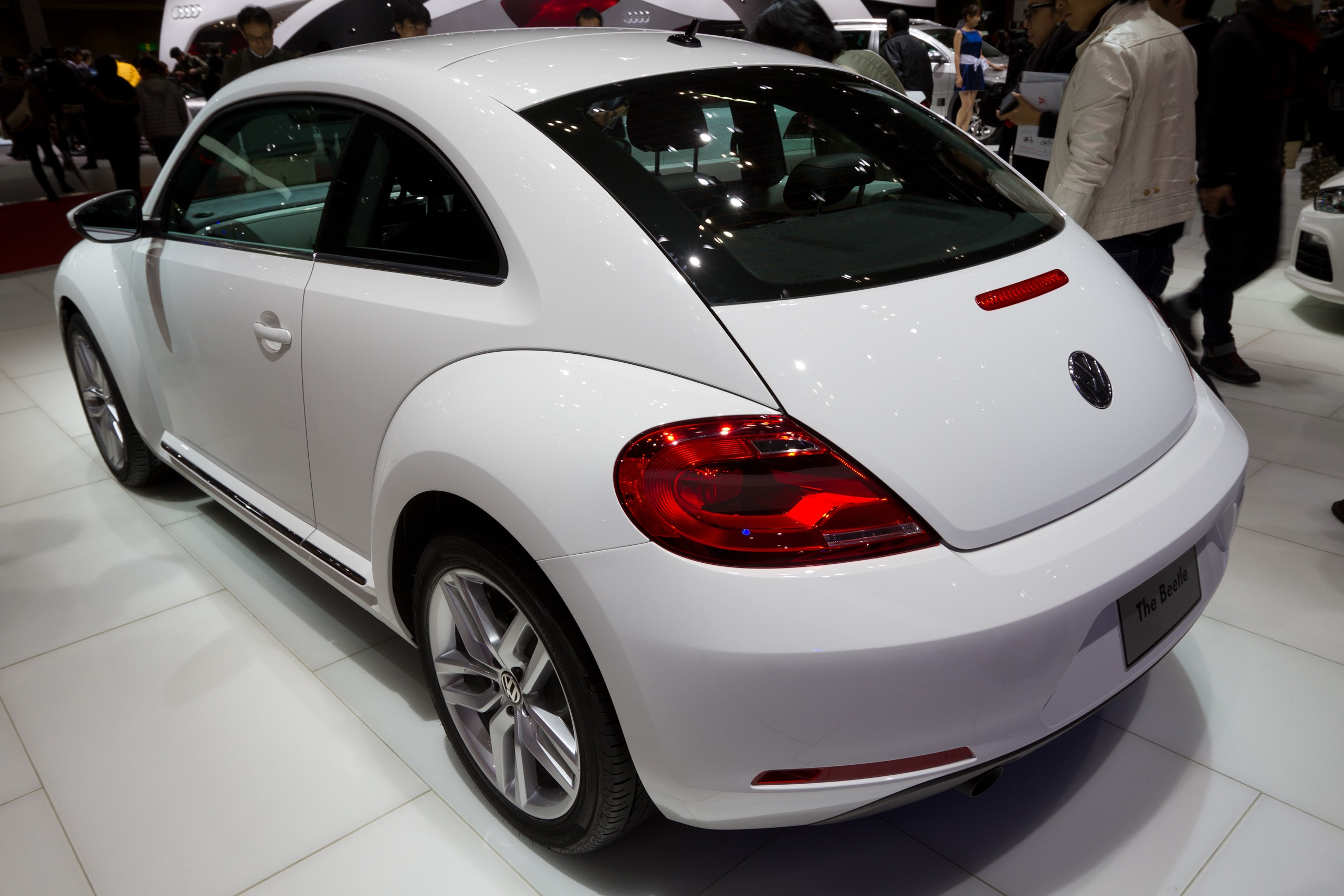 Tokyo Motor Show 2011: Volkswagen Beetle